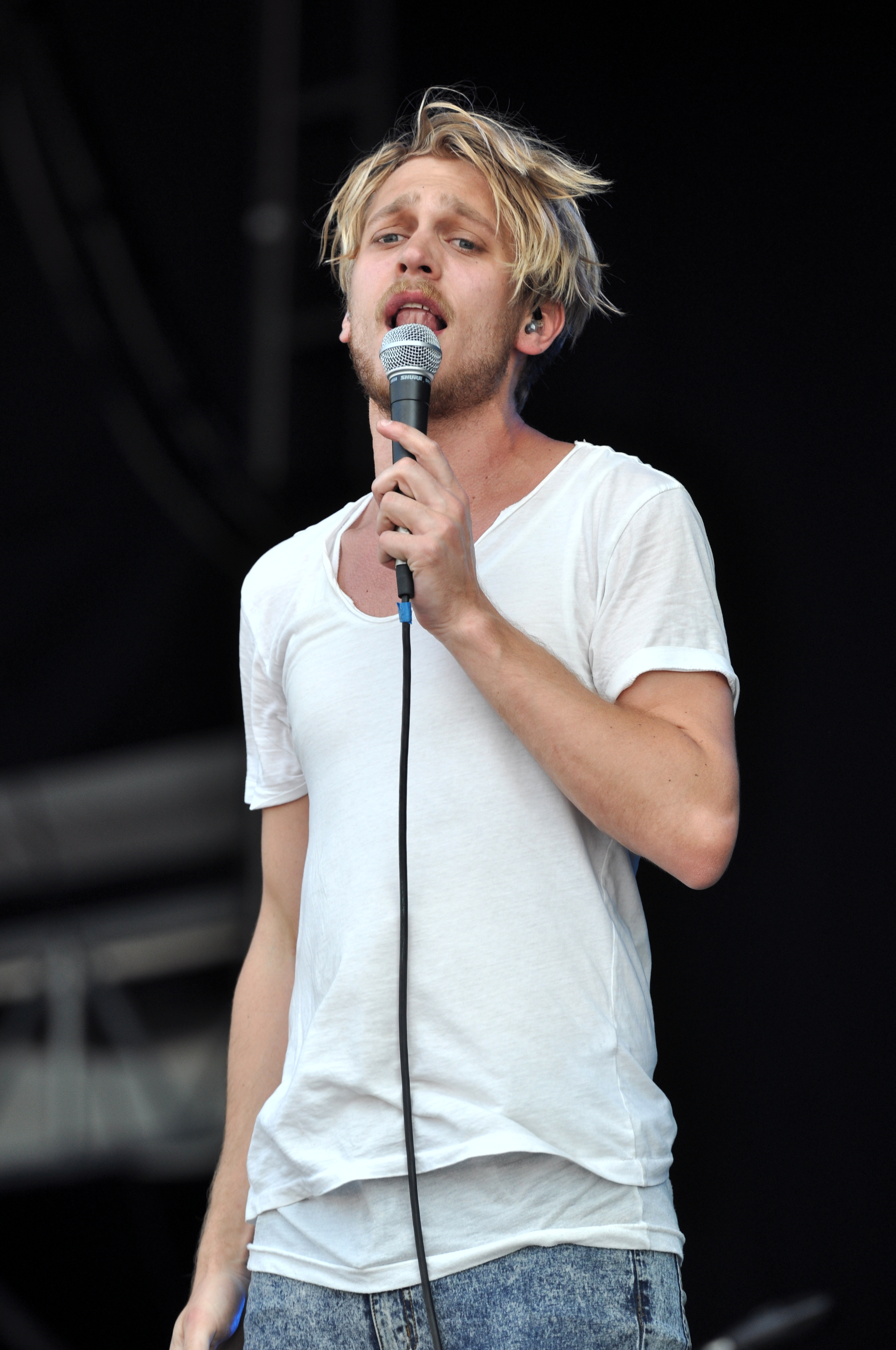 The Royal Concept at Rock am Ring 2013